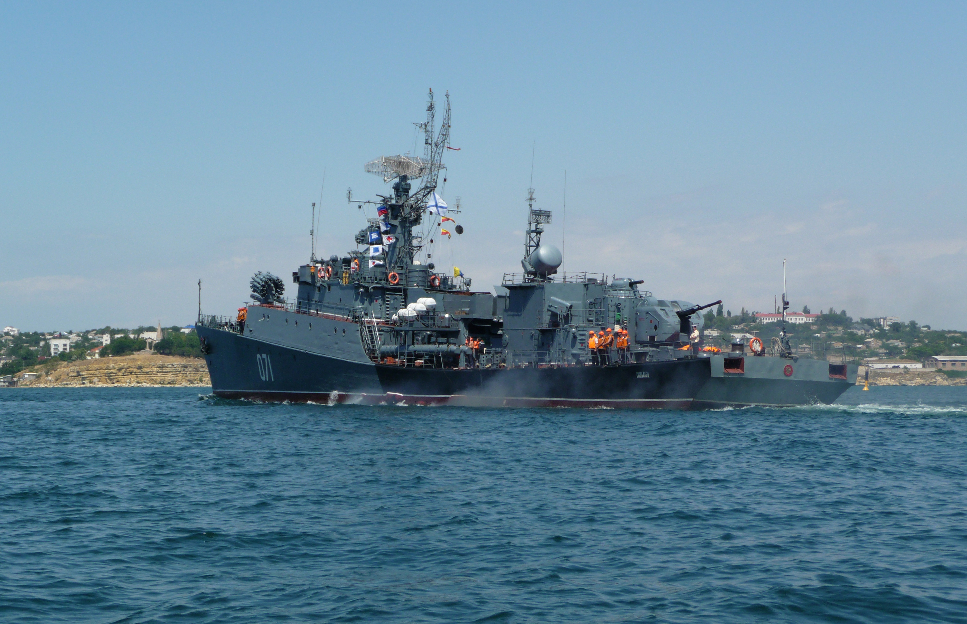 Grisha-V class corvette (also known as small anti-submarine ship) MPK-118 Suzdalets. Project 1124M. Photo taken in Sevastopol bay from a boat. On October, 19th 1990 this ship took part in military operations near coast of Ethiopia. Ship has been fired from coast by armies of the Ethiopian separatists with 122 mm guns and non guided rockets. Reciprocal shots from this ship has destroyed two batteries and warehouse of ammunition. The crew has received military awards.